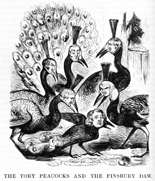 Cartoon of Thomas Wakley plucking feathers from some of the peacocks of his times